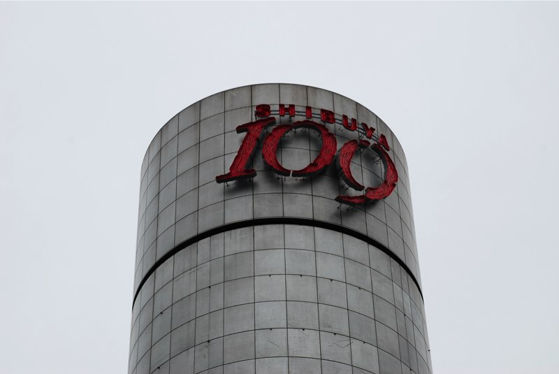 Shibuya 109